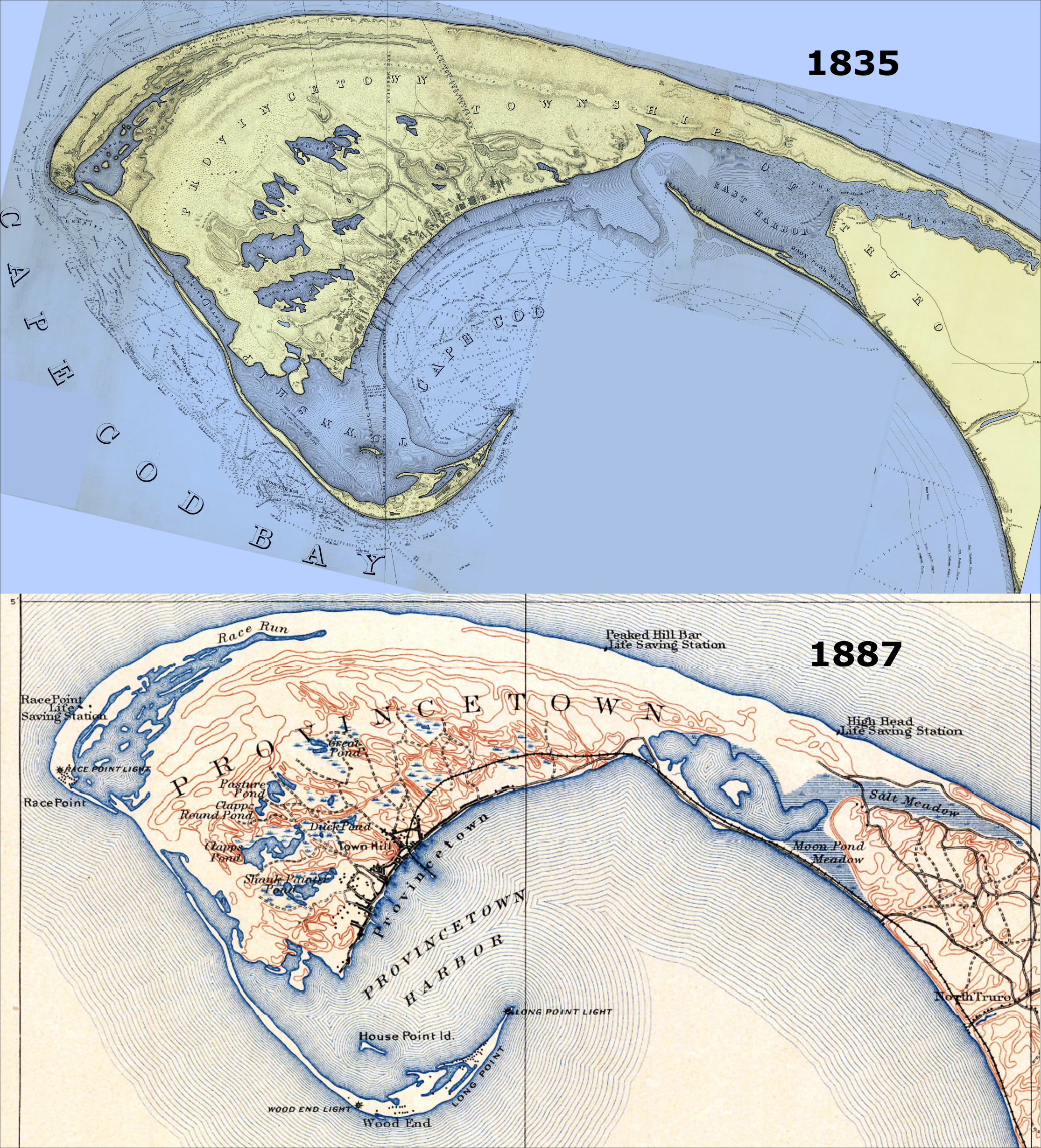 Town of Provincetown, before and after the railroad. Most notably, there were no roads in/out of town until the US government artificially sealed off the Eastern Harbor. This was done so as to prevent storm washout from breaching the northernmost part of that harbor; a breach would have made Provincetown an island permanently, and would have destroyed the valuable harbor. This later provided the foundation for the railroad to finally come to Provincetown in 1873, and for a formal road in 1877. Top (1835) map extracted from "A Map Of The Extremity Of Cape Cod Including the Townships of Provincetown & Truro: A Chart Of Their Sea Coast And Of Cape Cod Harbour, State of Massachusetts", by the U.S. Topographical Engineers (later were rolled into the US Army Corps of Engineers. Grolltech: Colorized and reoriented with north to top of page. Bottom (1887) map extracted from "Massachusetts, Provincetown Sheet", by the US Geological Survey. See individual file pages for more details about the original works.